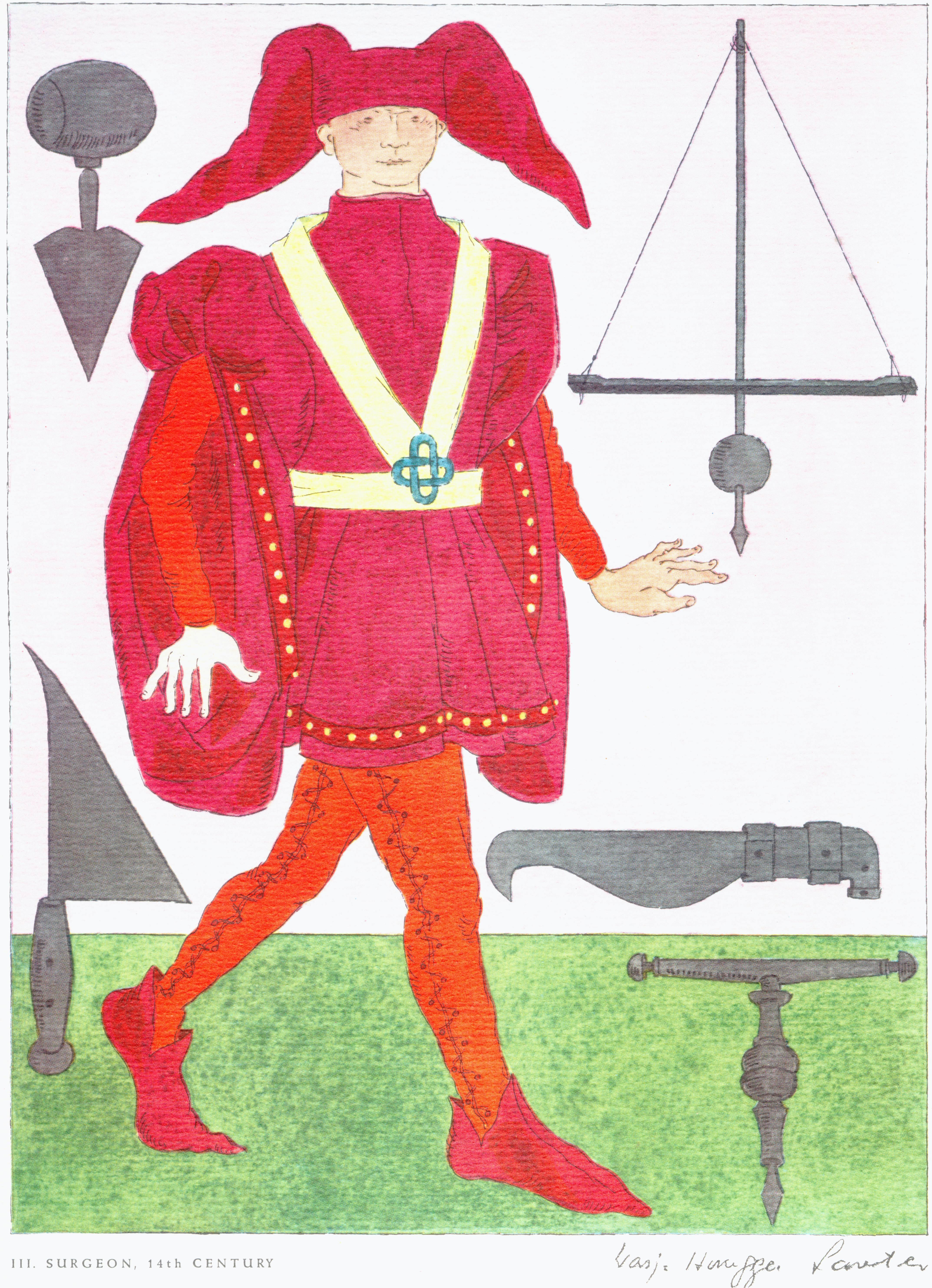 Surgeon, 14th Century - Plate III of XII "... portrayed by the Swiss illustrator, Warja Honegger-Lavater, from authentic costume reproductions in the University of Rome's Institute of Medical History."